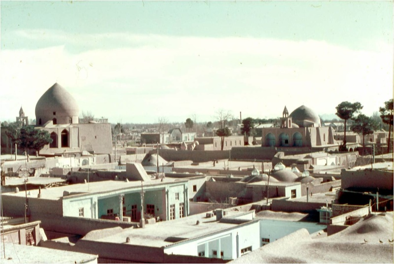 New Julfa, St. Bethlehem Church, consecrated in 1628, on the left. Church of the Holy Mother of God, consecrated in 1613, on the right.